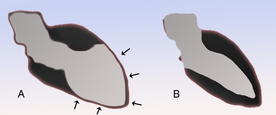 scheme of left ventriculogram in tako-tsubo cardiomyopathy (A) and normal (B) - Laevokardiogramm bei Tako-Tsubo Kardiomyopathie (A) und Normalperson (B) schematisch